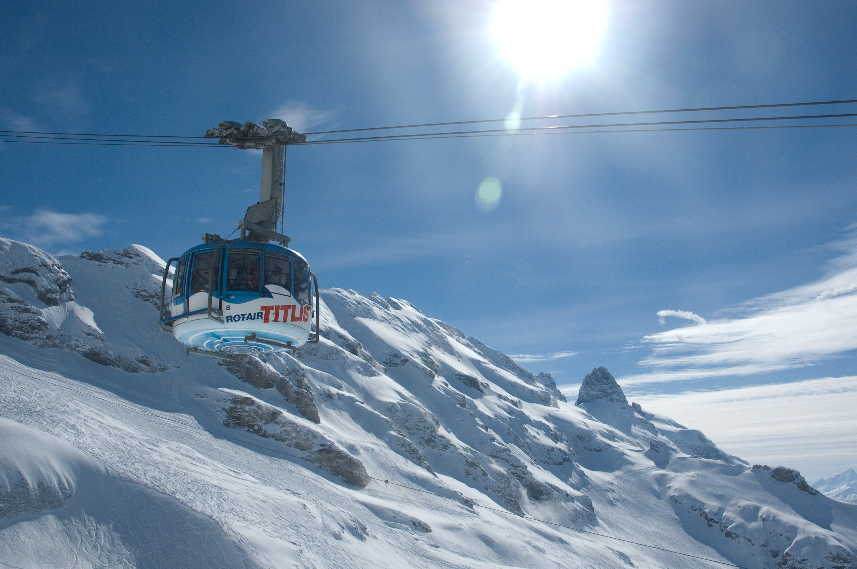 The old Stand-Klein Titlis cable car, near Engelberg